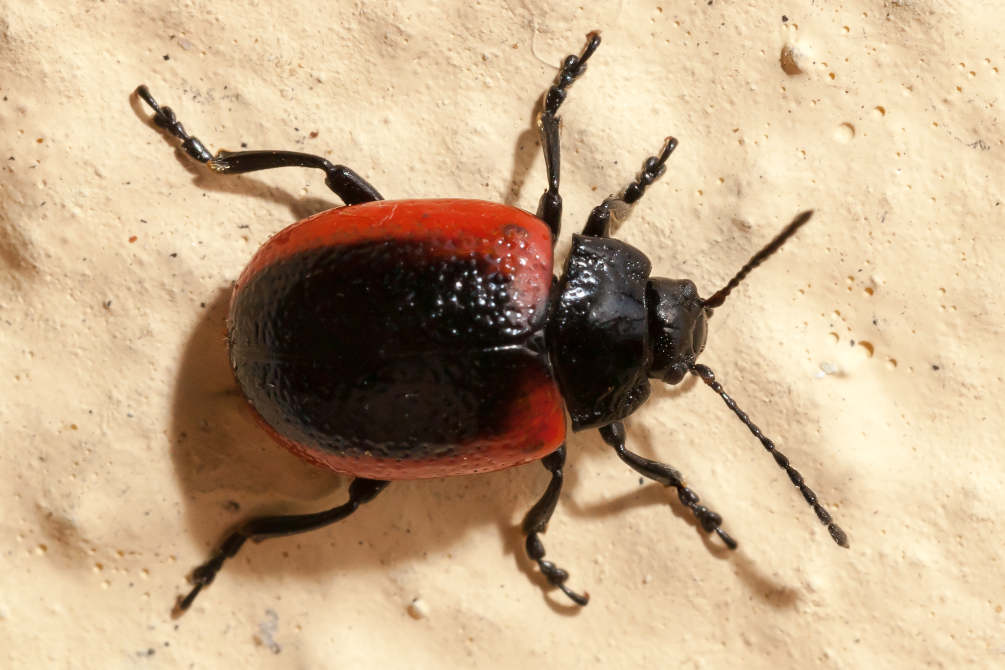 Chrysolina limbata in Oroso, Galicia (Spain)